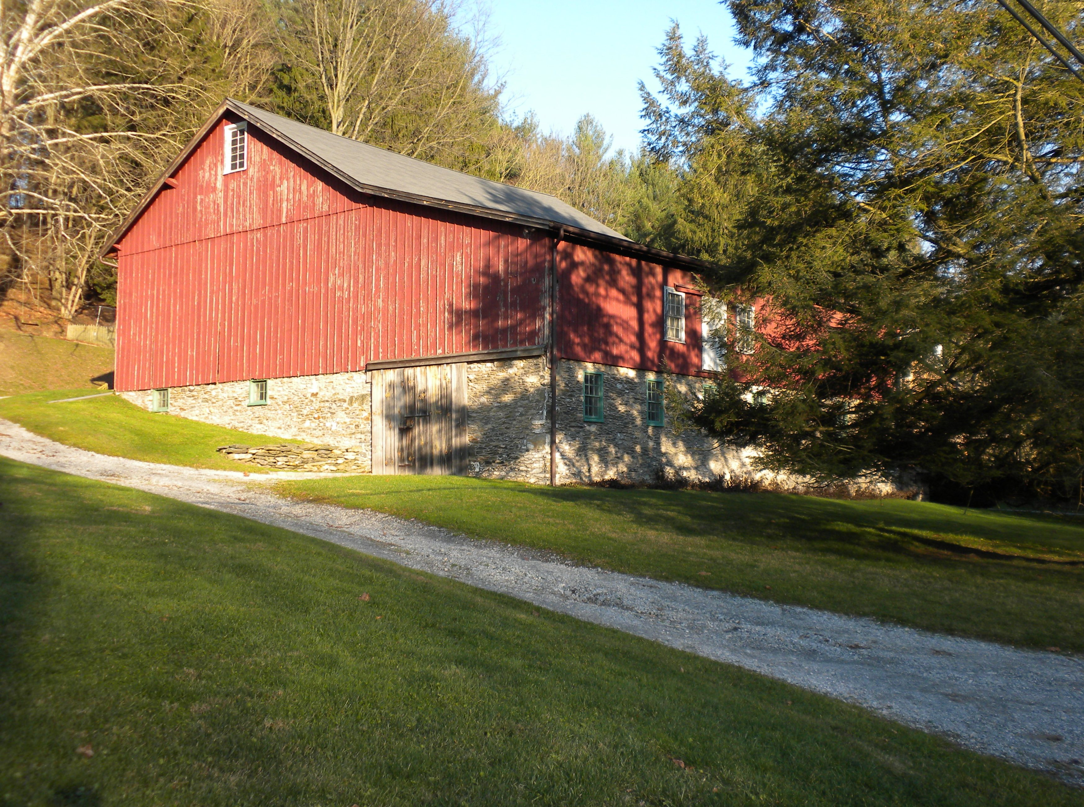 Mountain Meadow Farm, near Embreeville, PA, barn. On NRHP. This photo is my own work and I donate it to the public domain